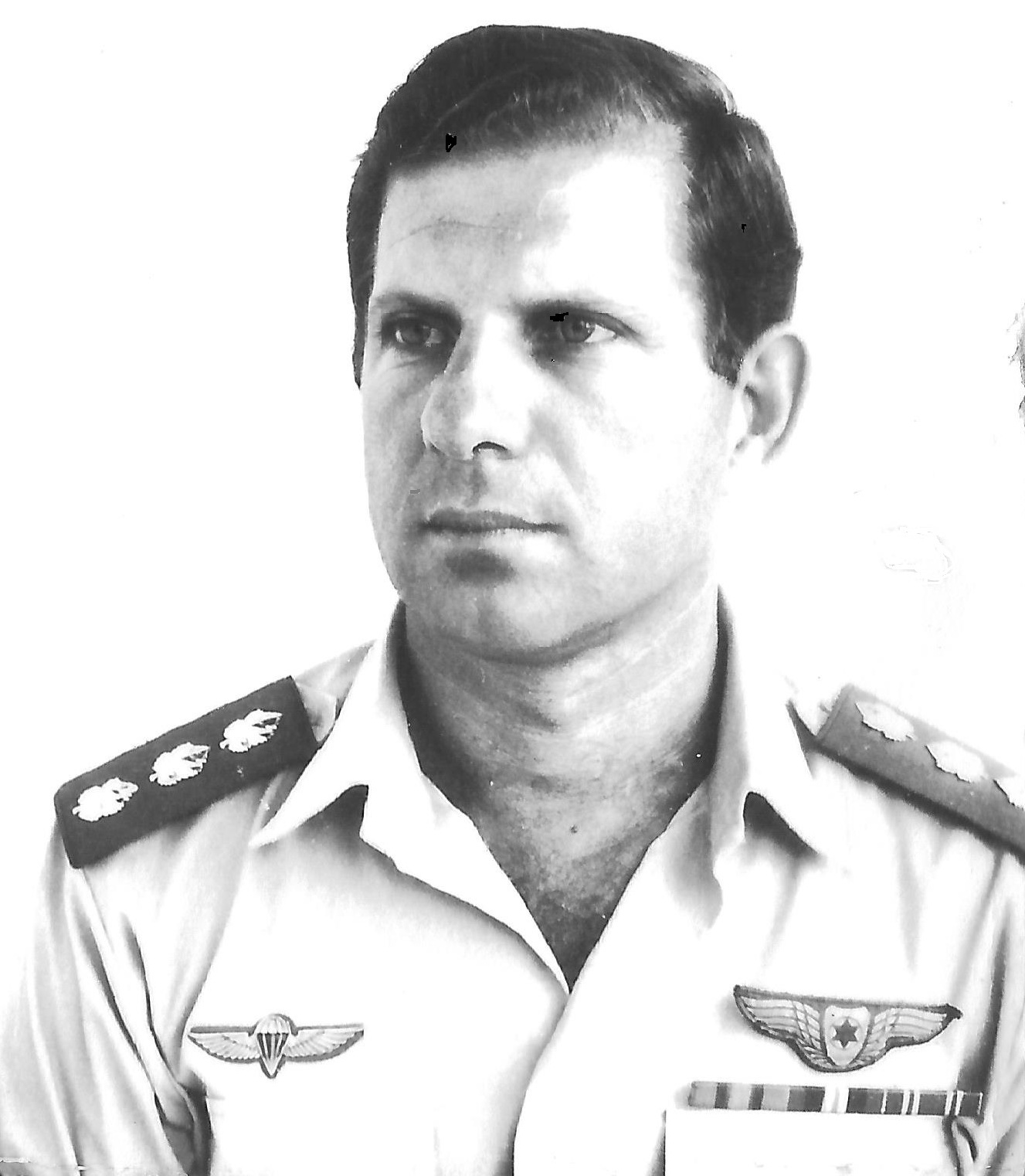 Israeli pilot Oded Marom